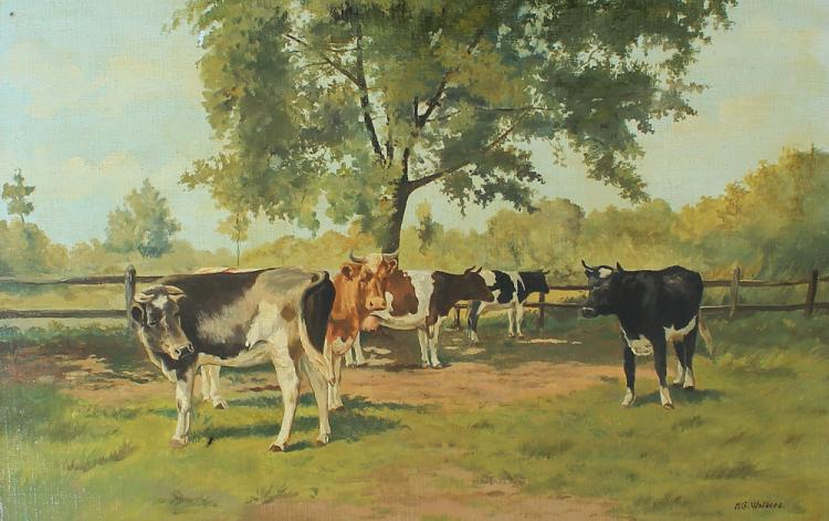 Cows